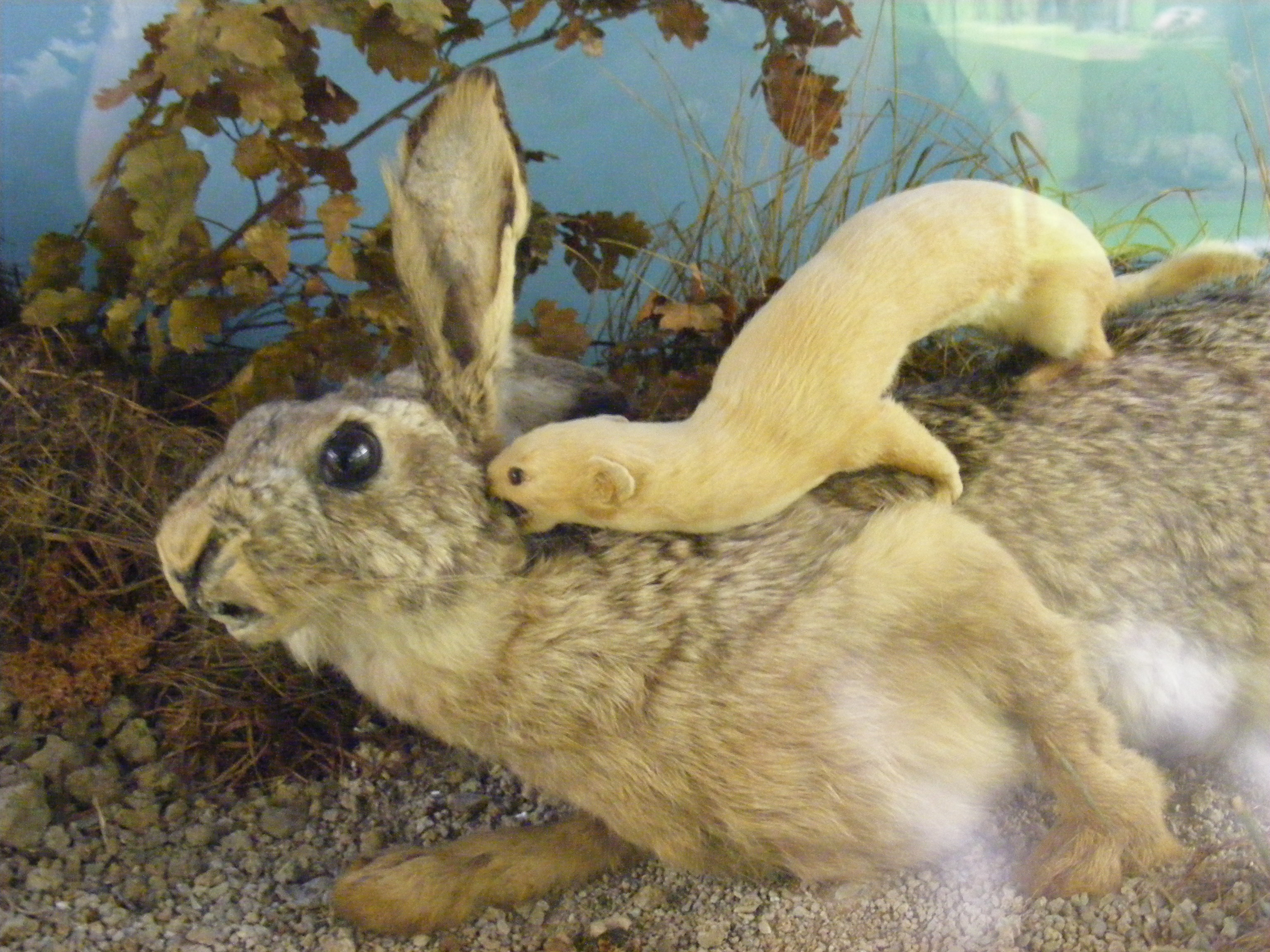 A least weasel attacking a brown hare on display at the Natural History Museum of Genoa